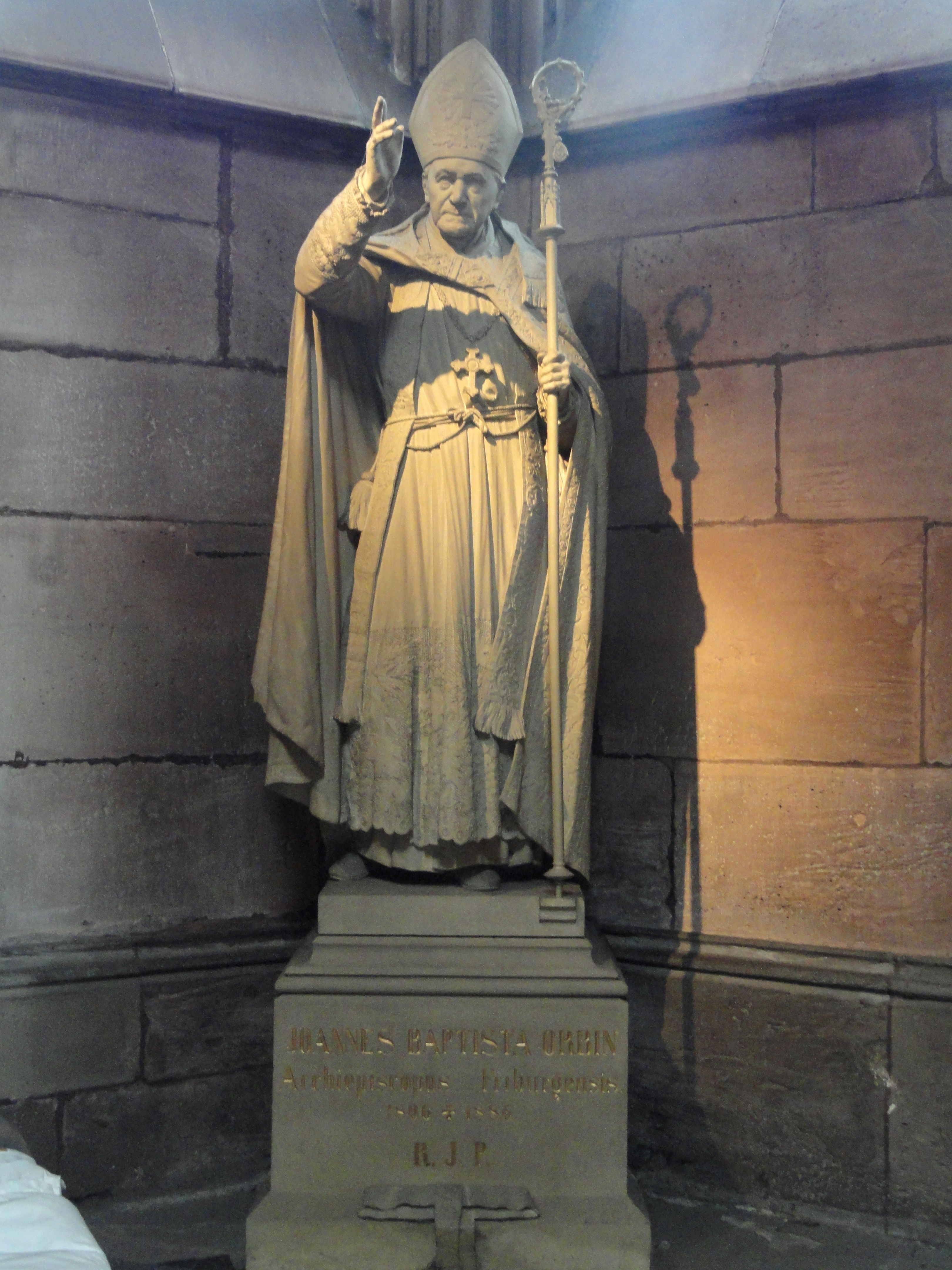 Sculpture of Johann Baptist Orbin by Gustav Knittel in Freiburg Minster, Freiburg im Breisgau, Baden-Württemberg, Germany.